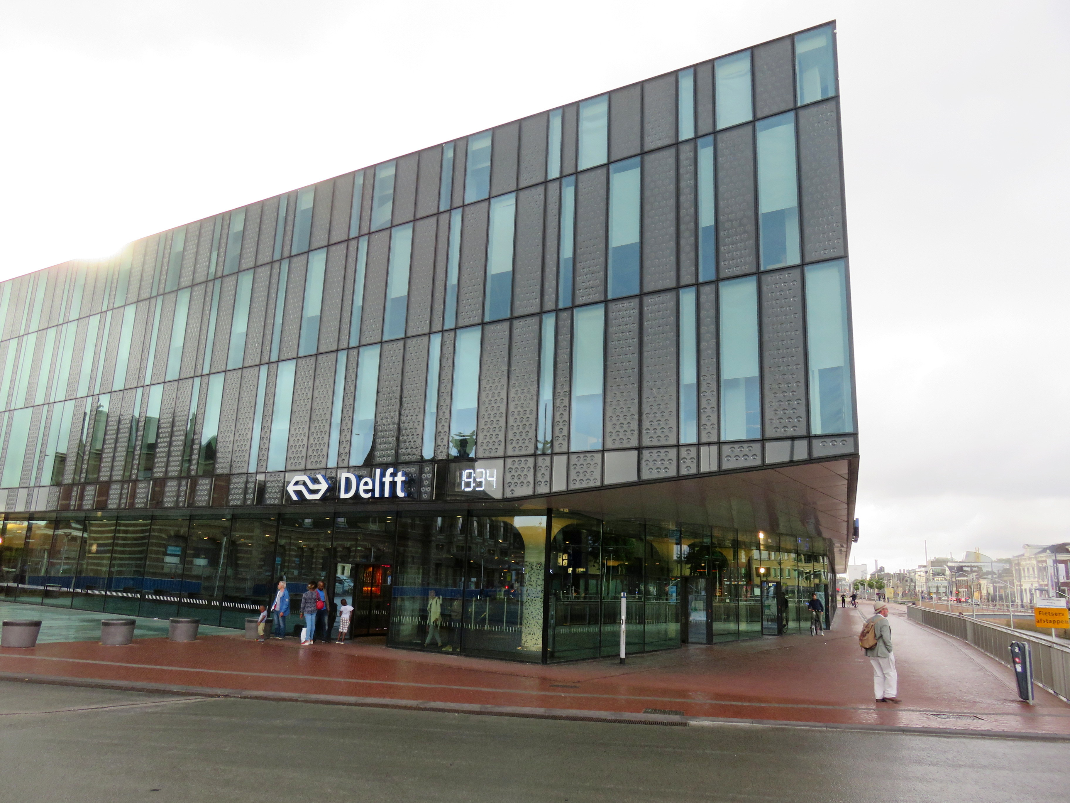 Station Delft (NL) outside